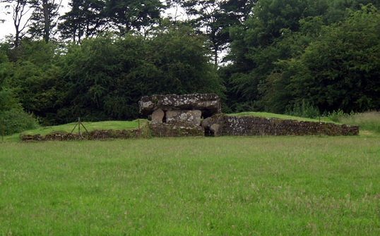 Tinkinswood, Vale of Glamorgan, Wales. This chambered long cairn is covered by an almost rectangular mound. There has been some (poor) restoration work carried out.